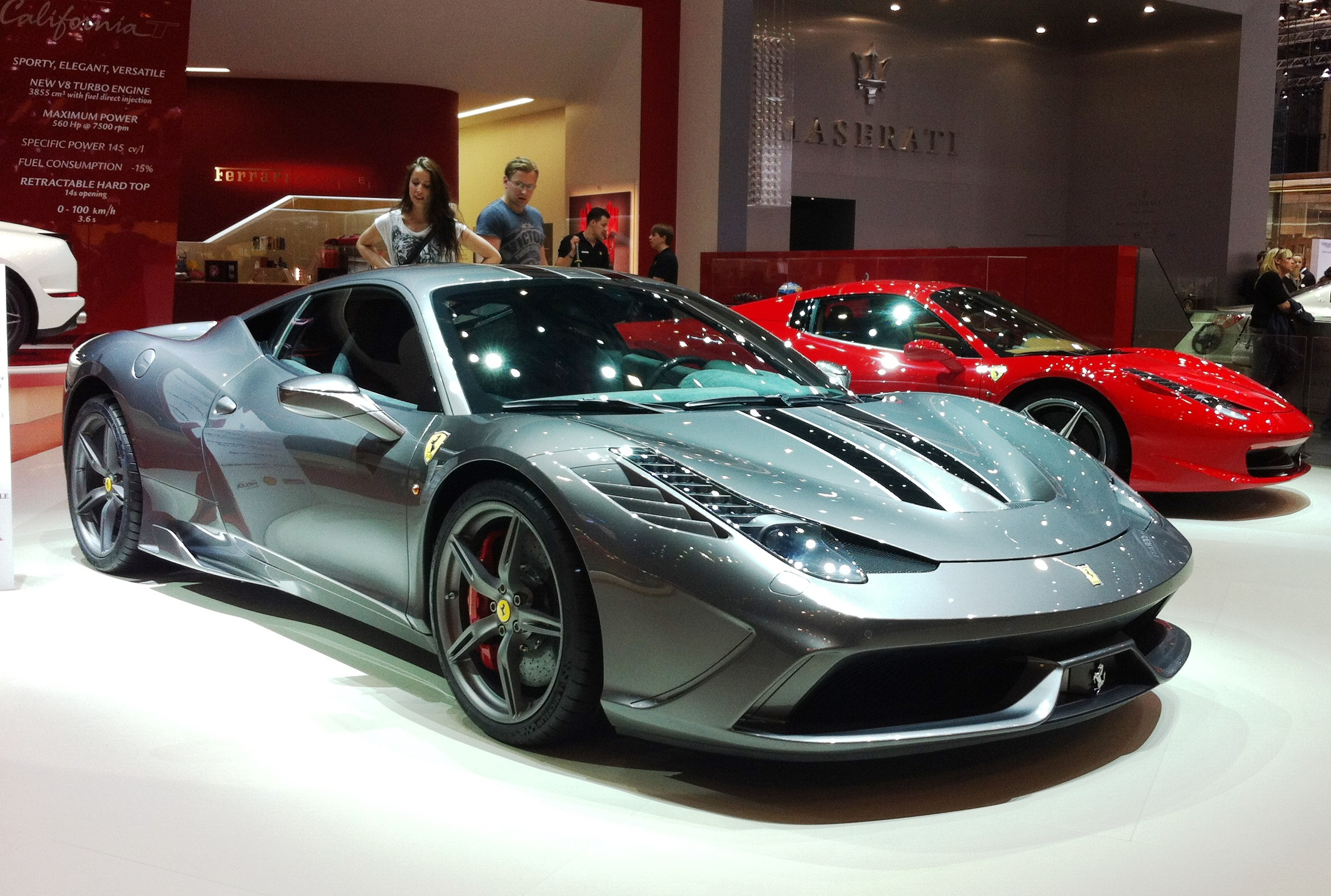 Ferrari 458 Speciale at Geneva Motor Show 2014